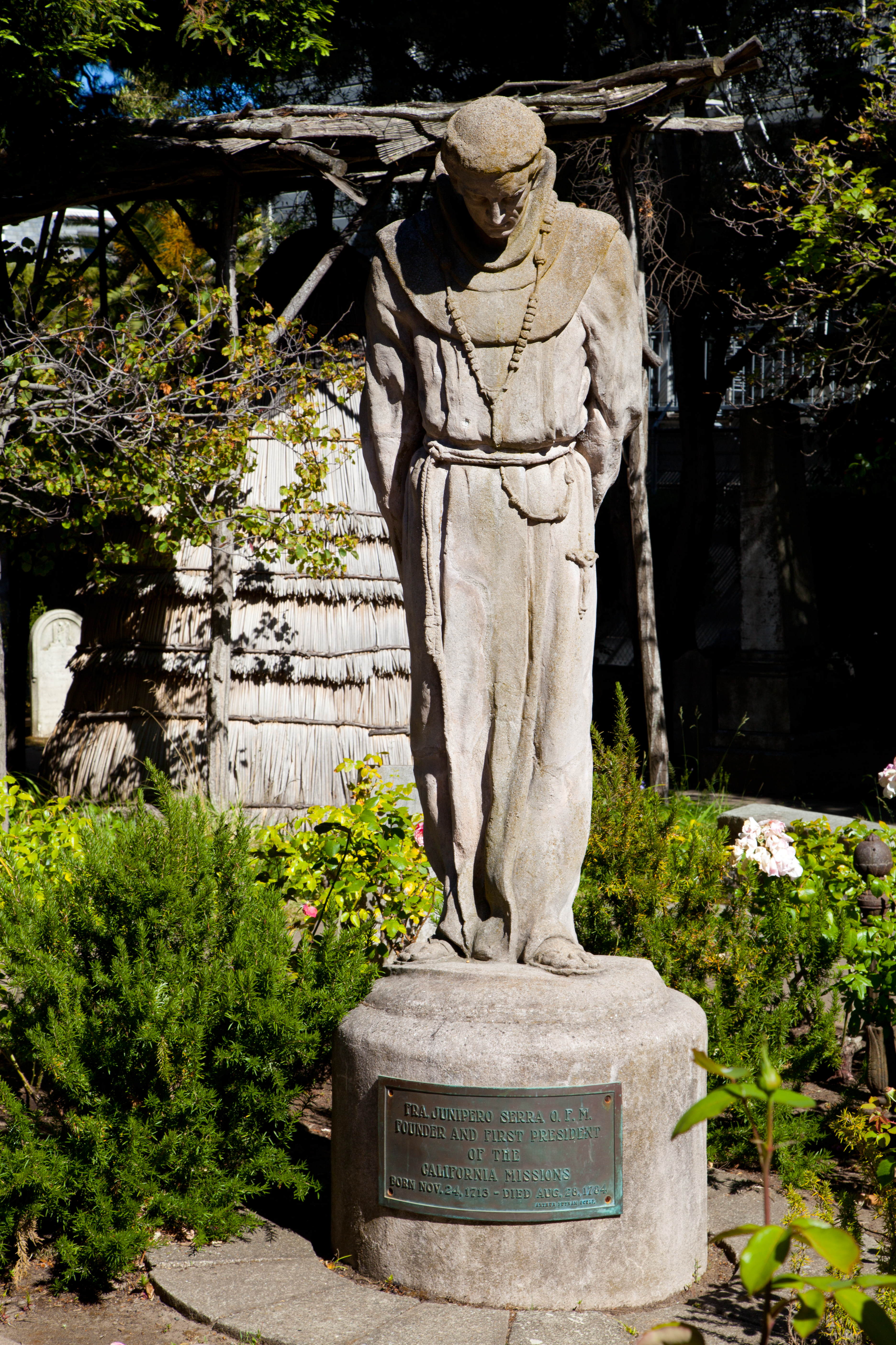 Father Junipero Serra, (sculpture). Mission Dolores